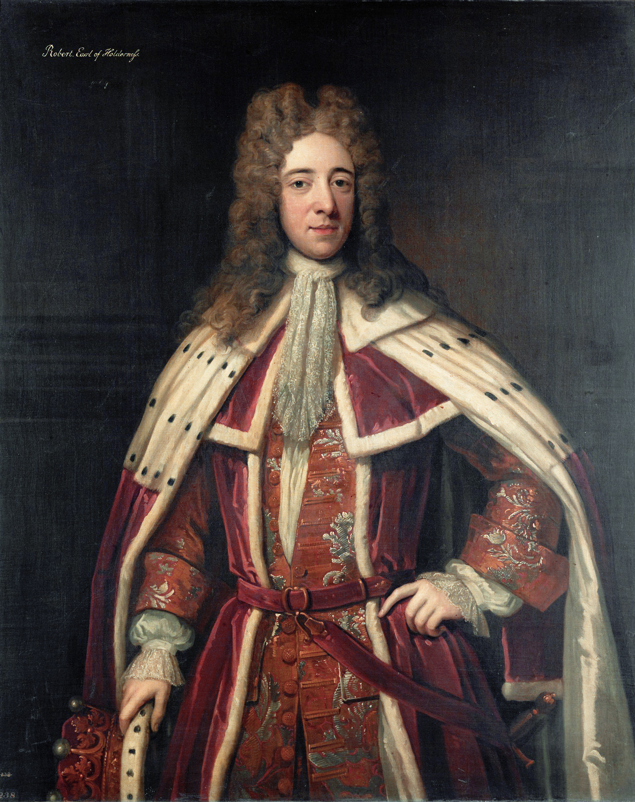 Robert Darcy, 3rd Earl of Holderness (1681-1721) oil on canvas 125.5 x 101 cm inscribed t.l.: Robert. Earl of Holderss / ...